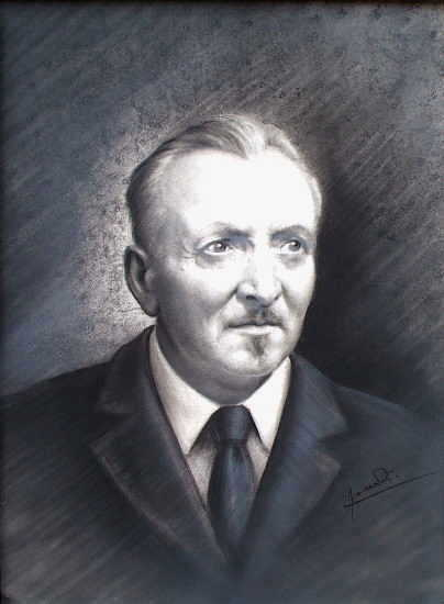 Portrait of Ambrogio Fossati 1950